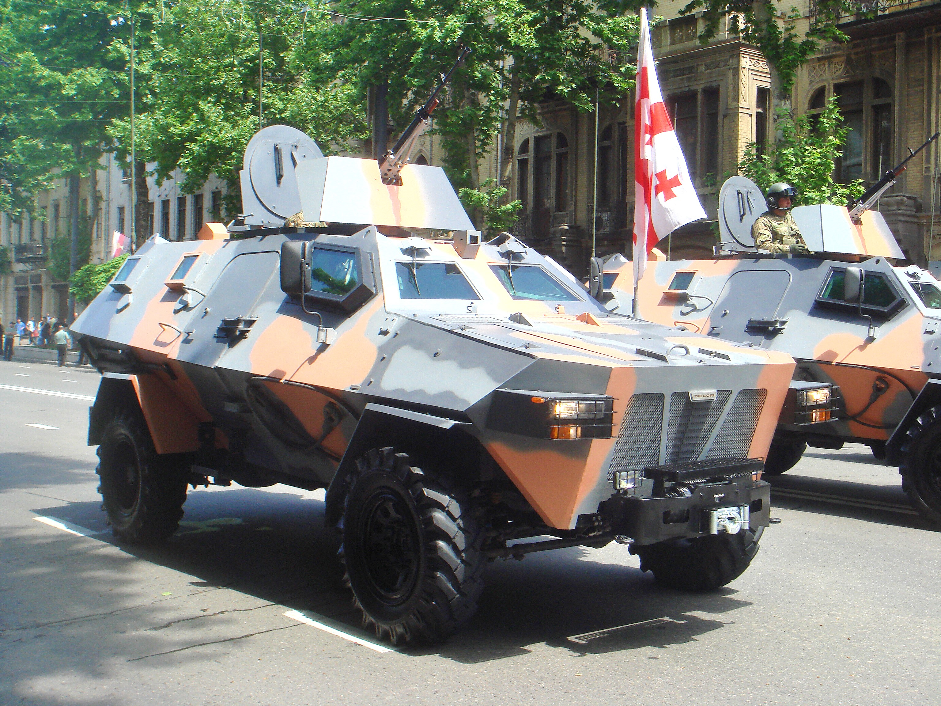 created this work entirely by myself.